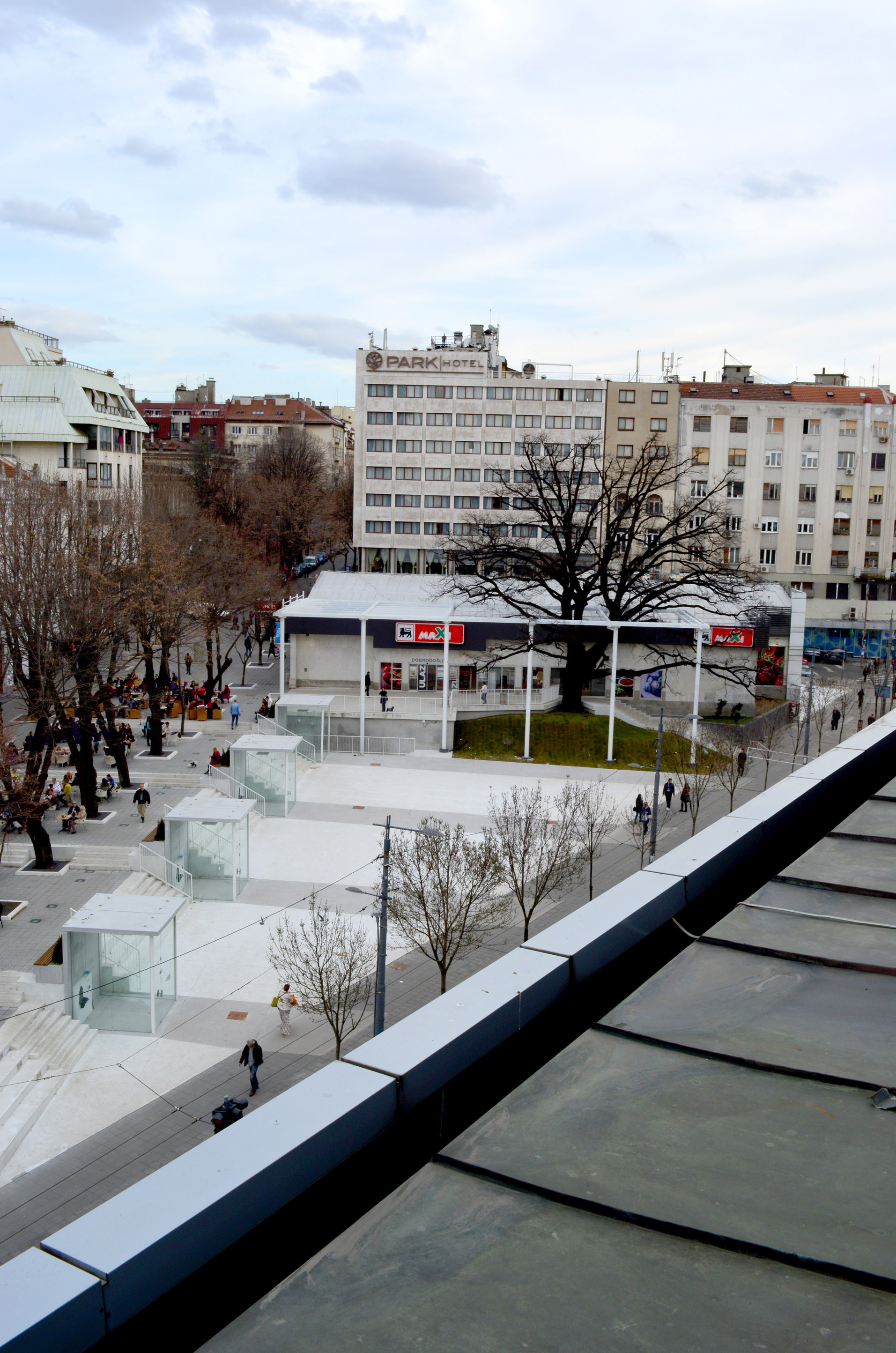 Photography from the roof JDP